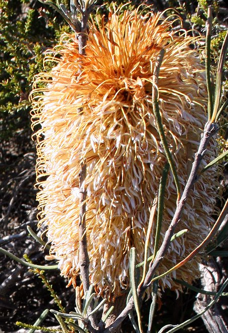 Banksia grossa, North of Badgingarra